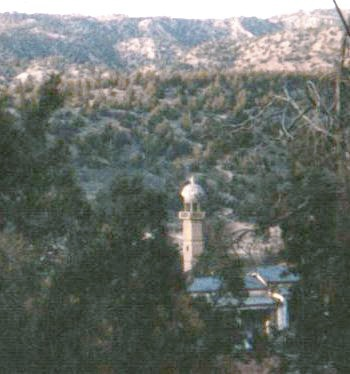 Ziarat's Minaret and the Juniper Forest, Balochistan, Pakistan